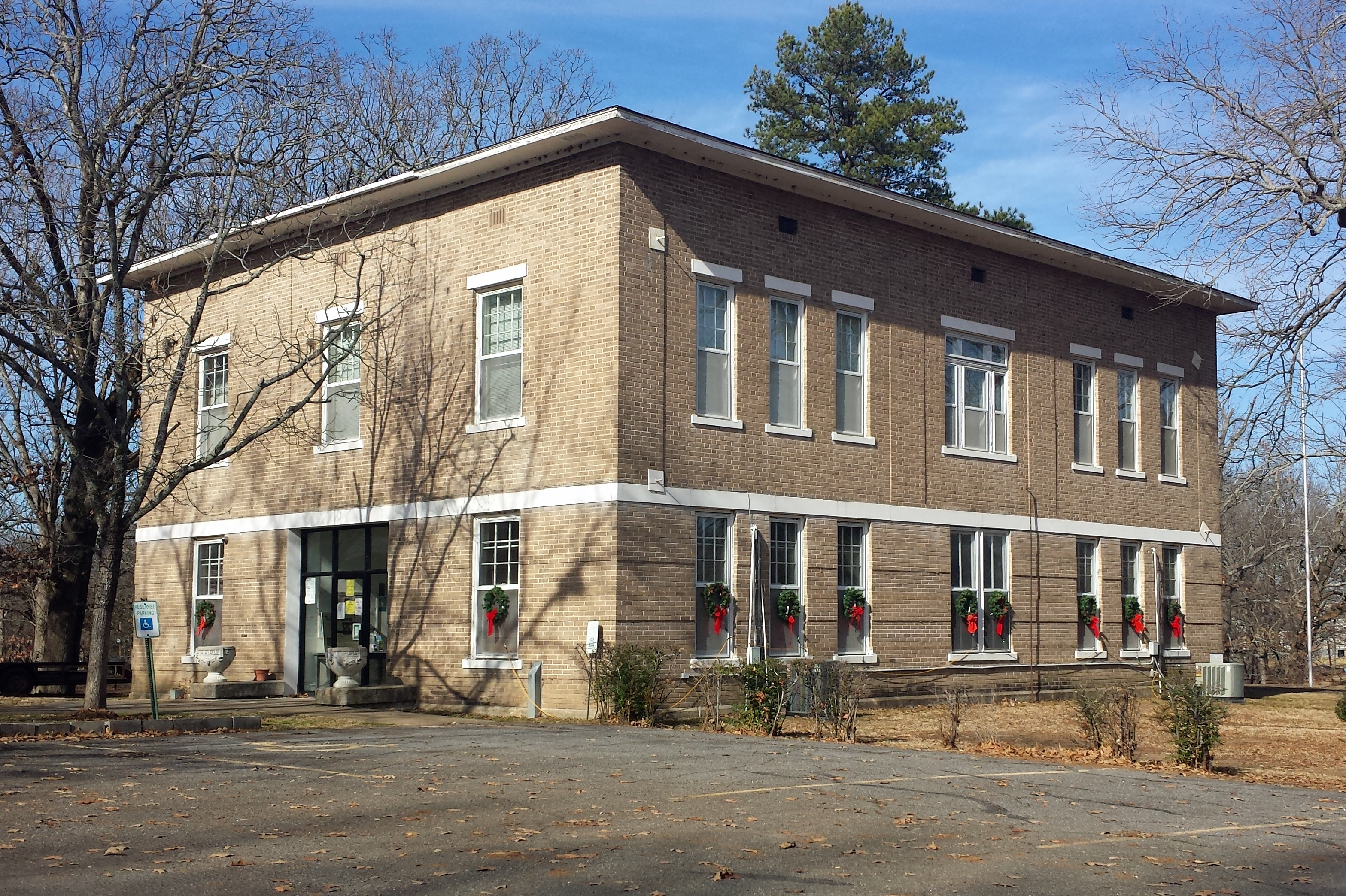 1939 structure built by WPA using materials salvaged from 1910 courthouse, listed in National Register of Historic Places on 4/20/1995